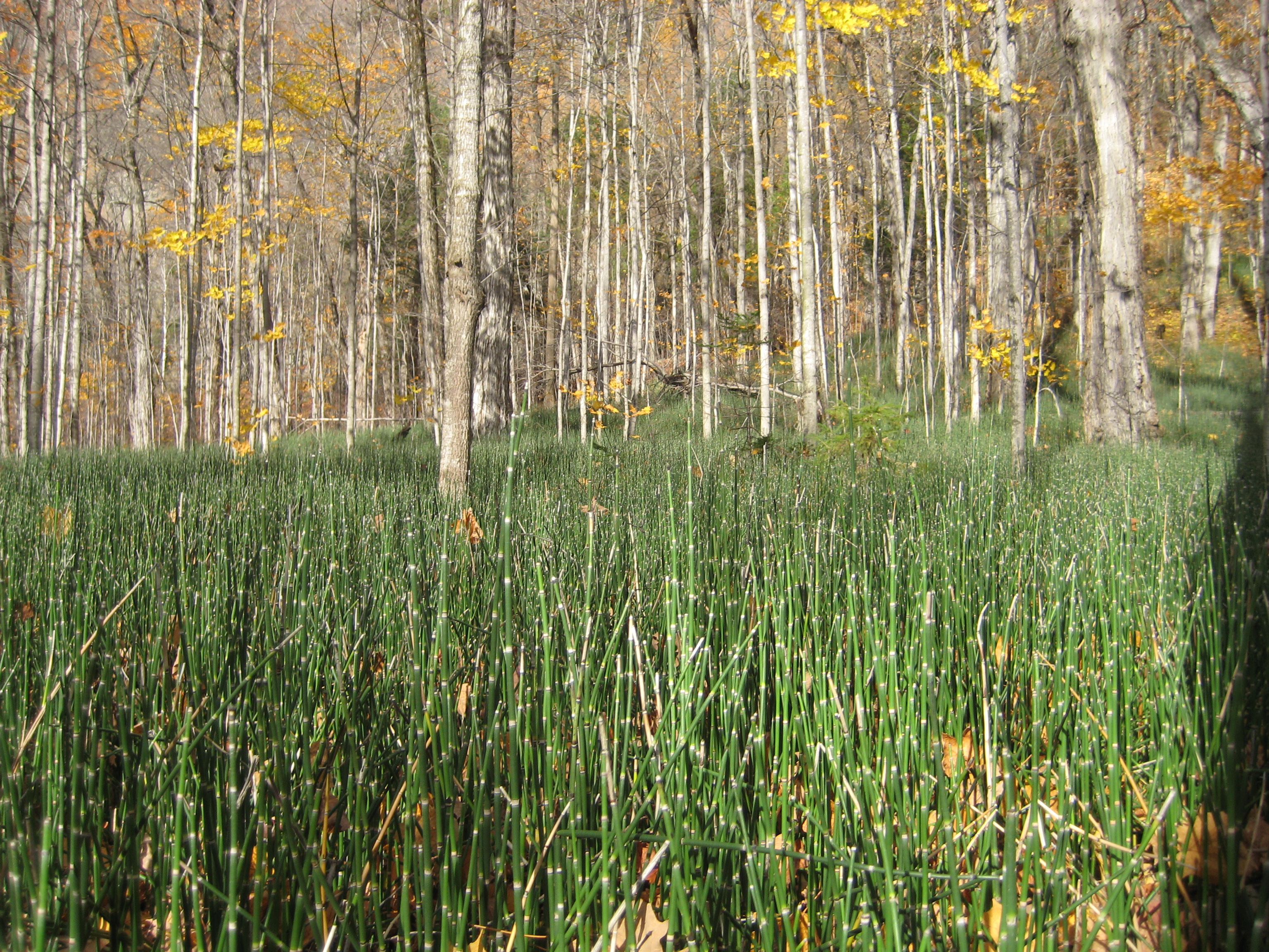 Equisetum praealtum (syn. E. hyemale subsp. affine) in Cap Tourmente, Saint Joachim Québec